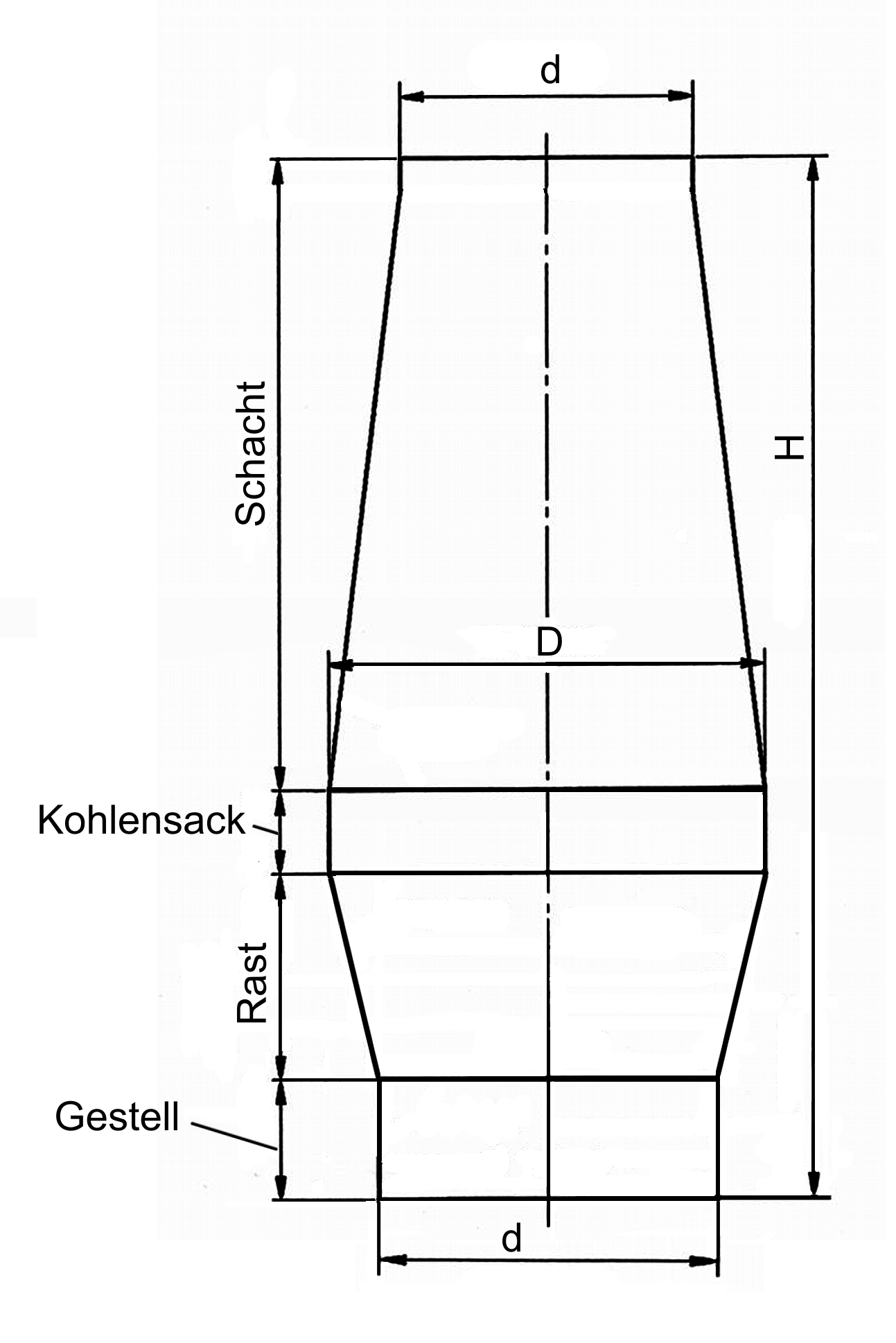 Blast furnace form